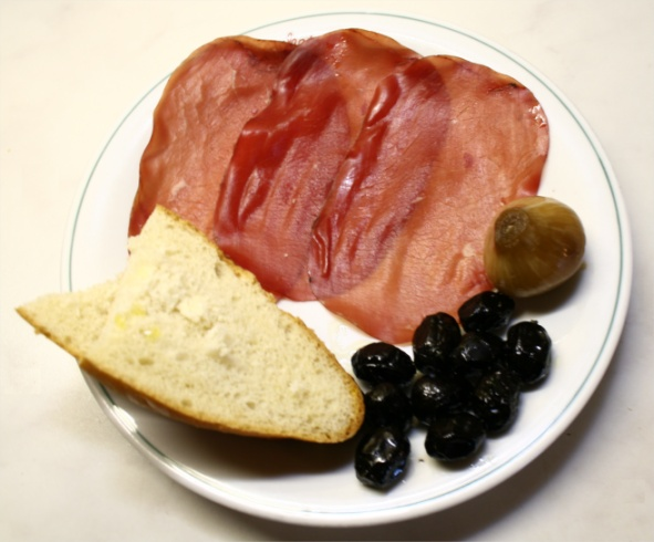 Three slices of Bresaola della Valtellina I.G.P. and some olives a pickled onion and bread. Ready to be eaten.